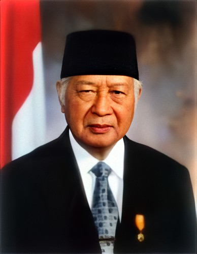 Suharto, second President of the Republic of Indonesia, at the start of his seventh term